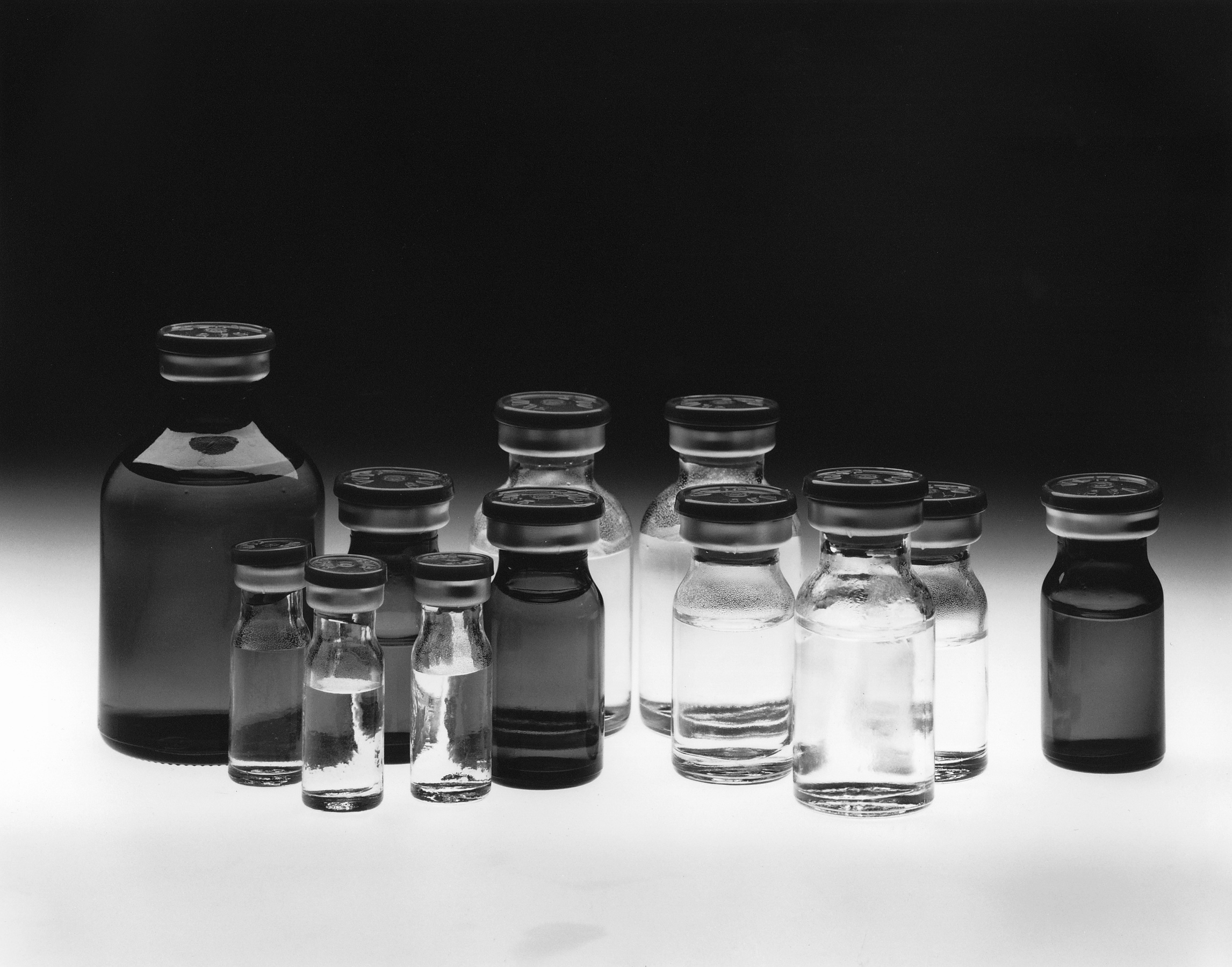 Title Chemotherapy Vials Description Variety of chemotherapy drugs in bottles. Topics/Categories Treatment, Chemotherapy Type B&W, Photo Source National Cancer Institute